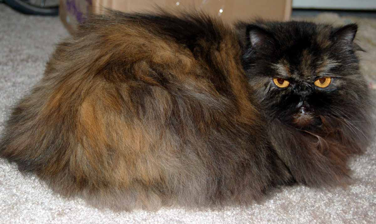 Tortoiseshell persian Cat